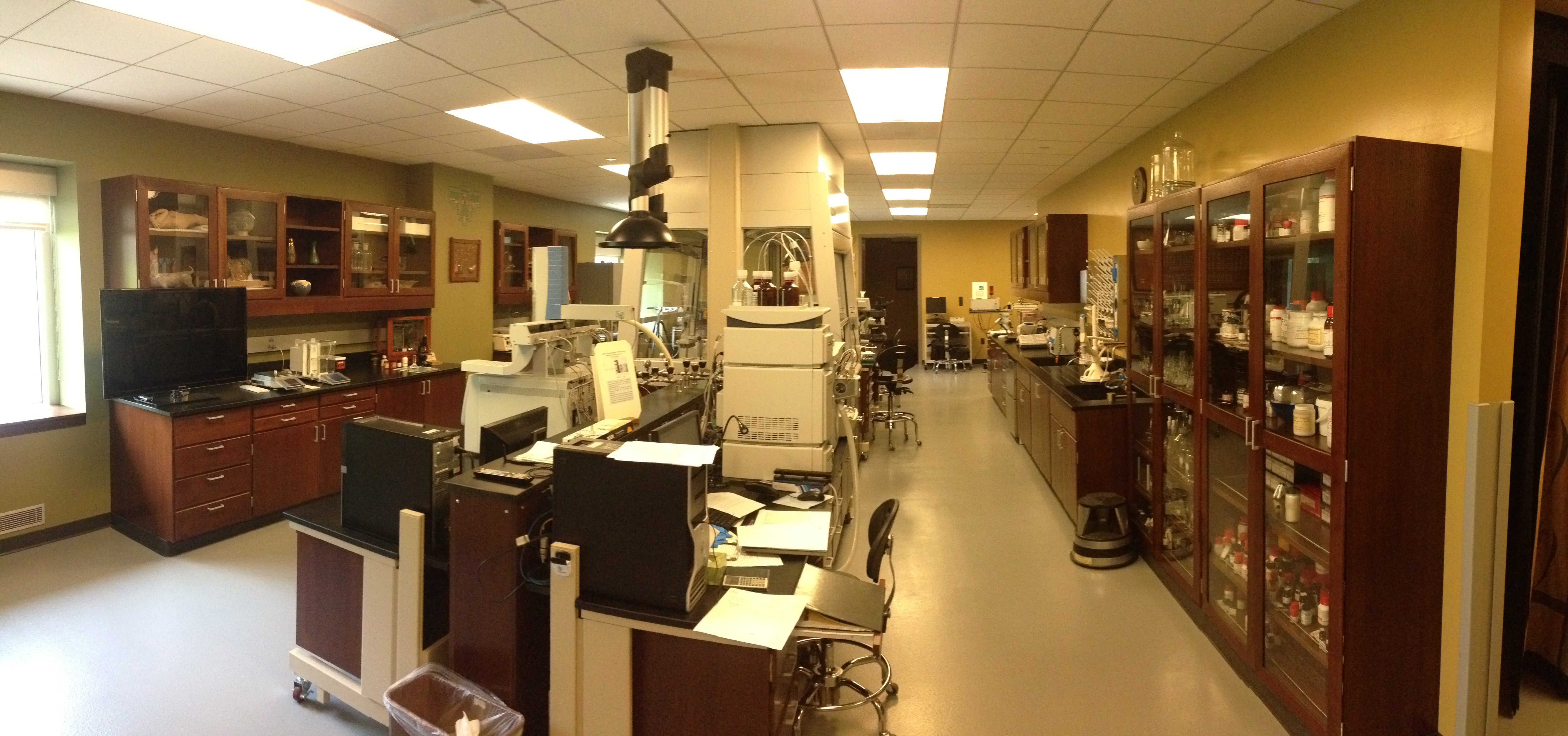 Panoramic view of the IMA Conservation Science Lab